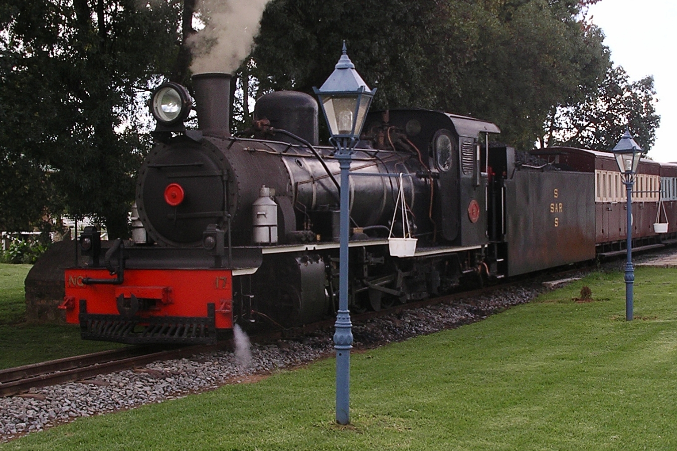 SAR Class NG 15 No.17 at Sandstone station in South Africa